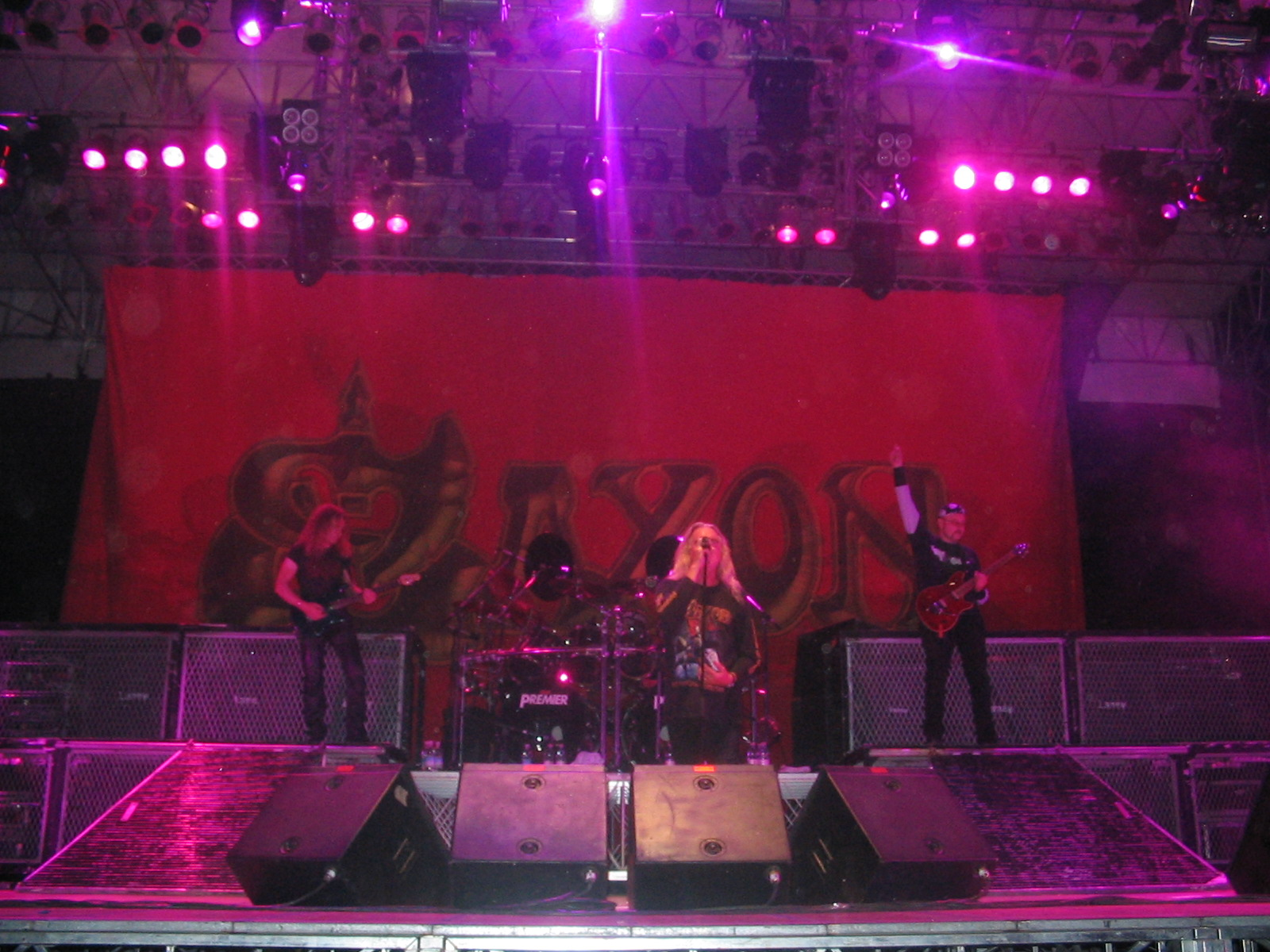 the band Saxon live at the Evolution Festival 2006.